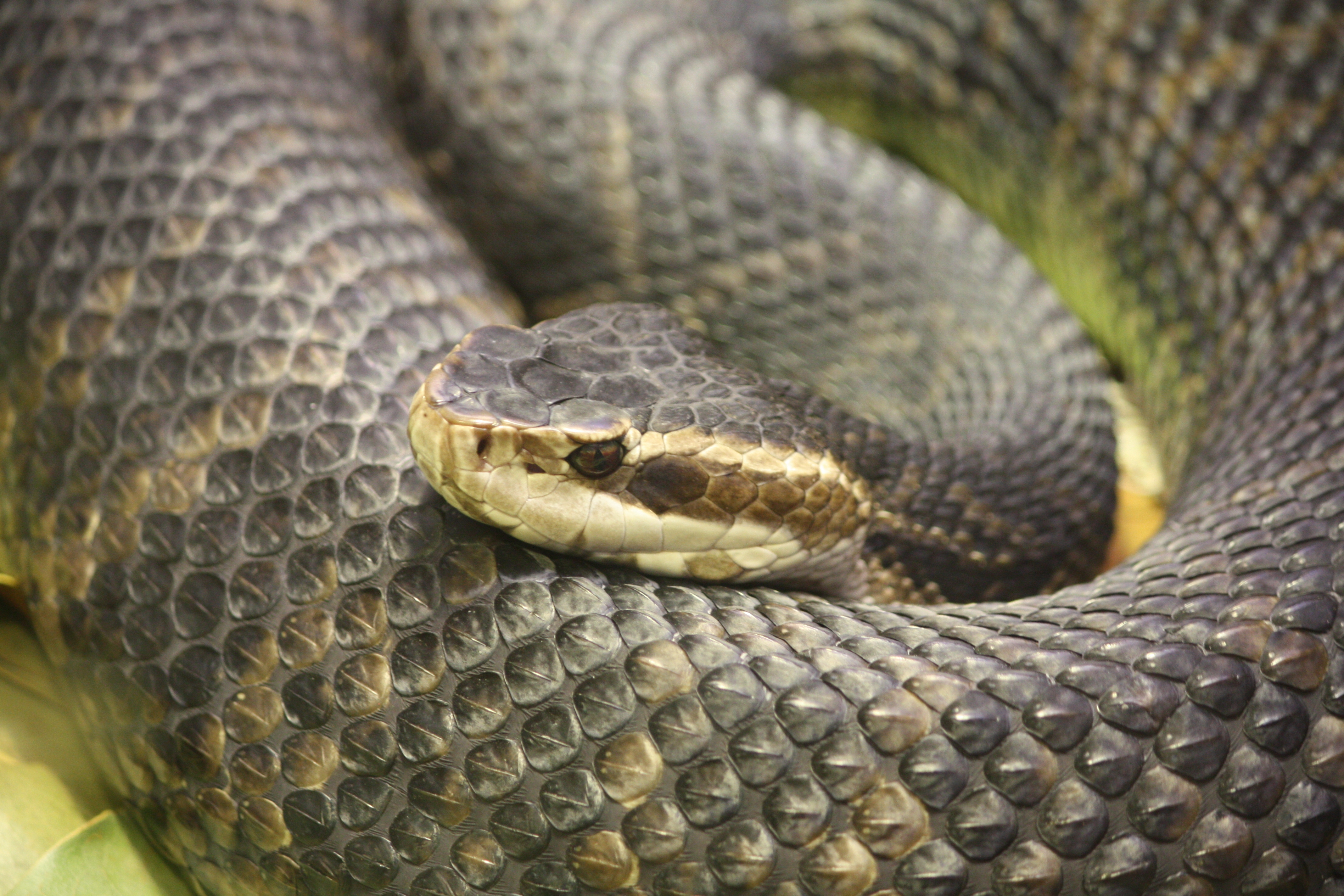 Florida Water Moccasin Agkistrodon piscivorus conanti at Cincinnati Zoo